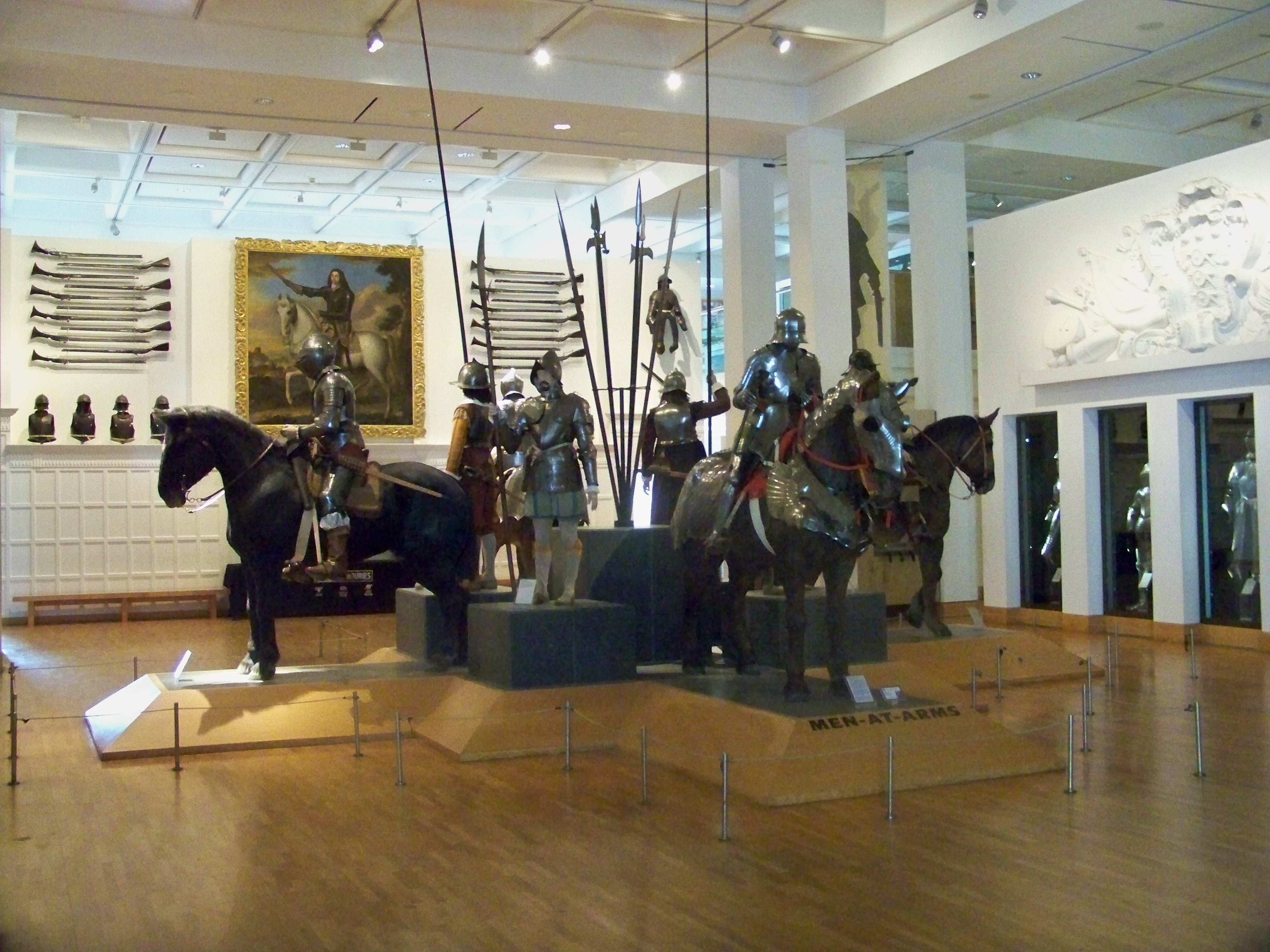 'Men at Arms' display at the Royal Armouries in Leeds, West Yorkshire. This display shows Horse Armour and human armour. Taken on the afternoon of Thursday the 24th of June 2010.